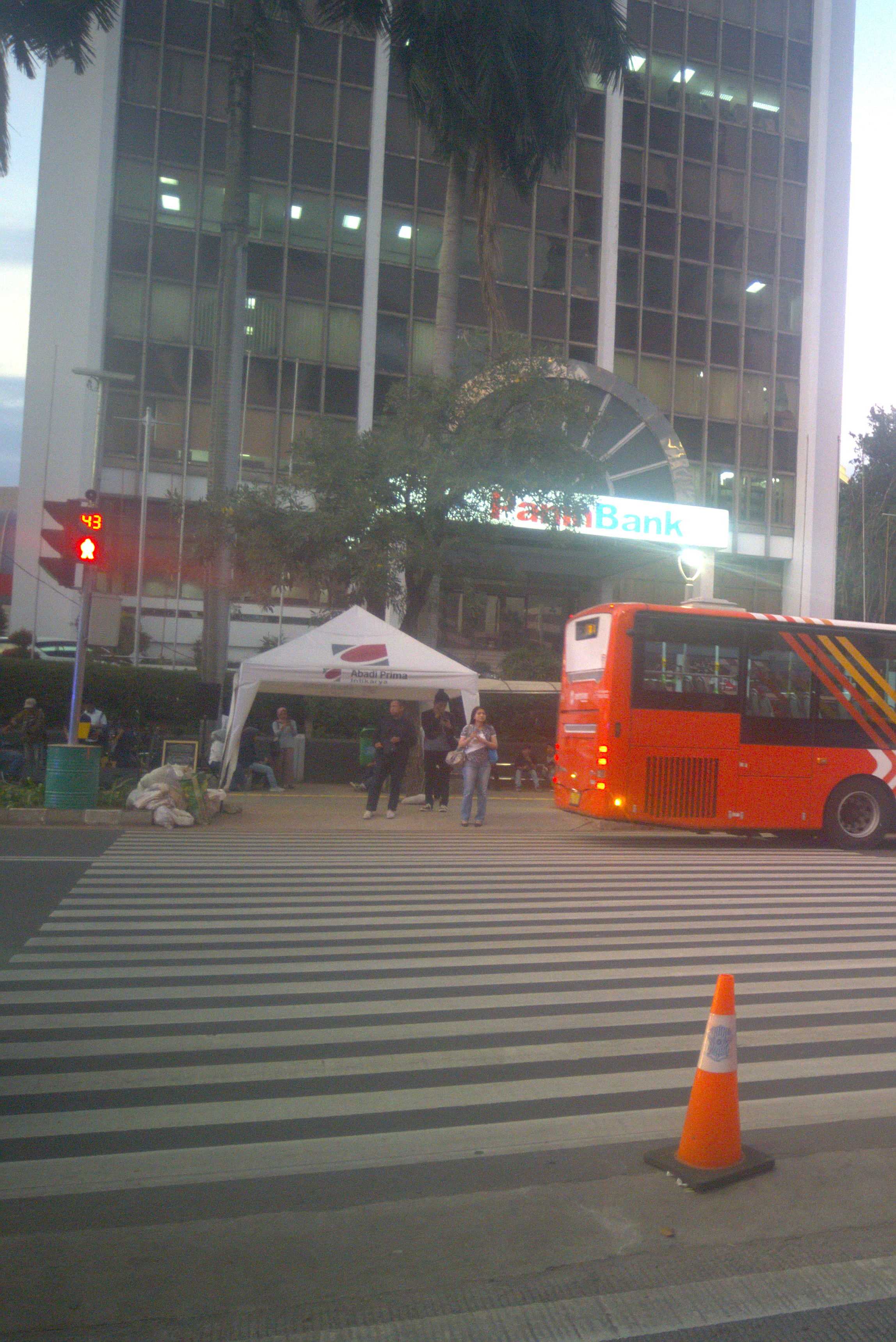 Pedestrians waiting at pelican crossing in Senayan, Jakarta, Indonesia